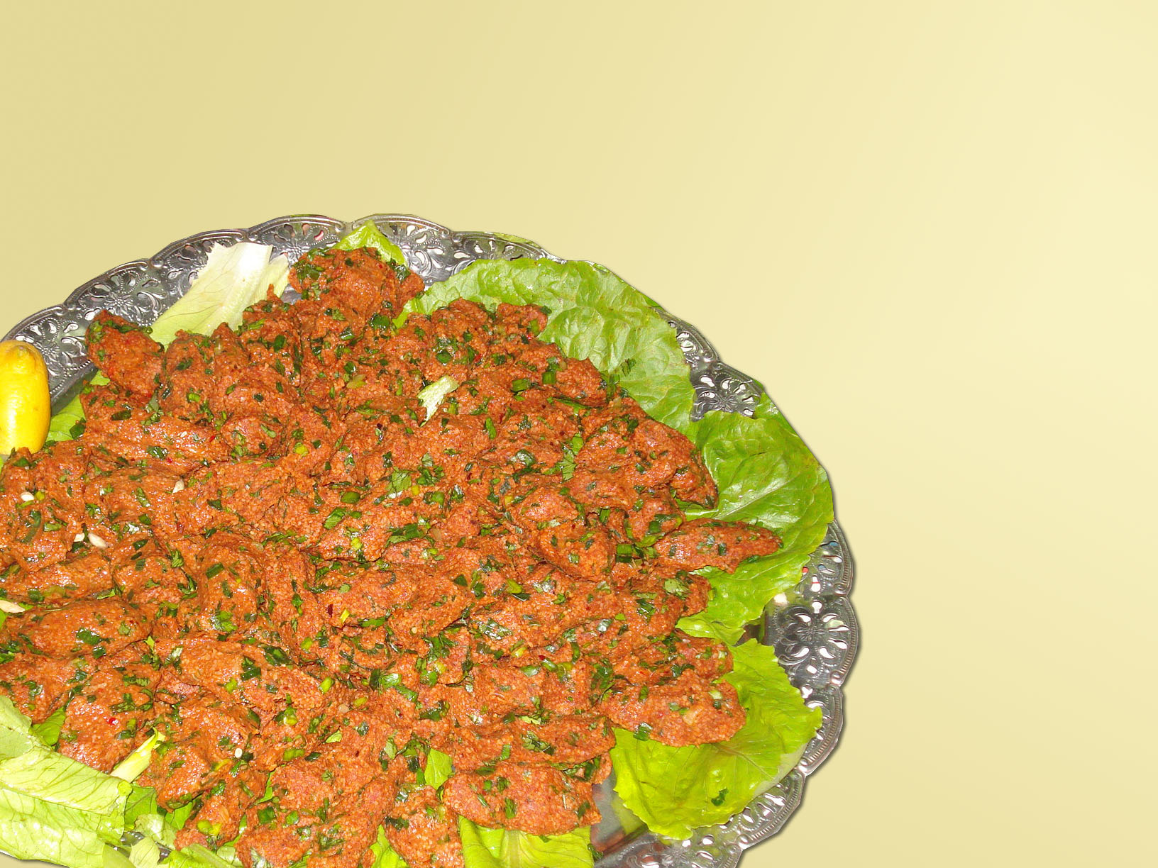 Çiğ köfte from East Anatolia cuisine